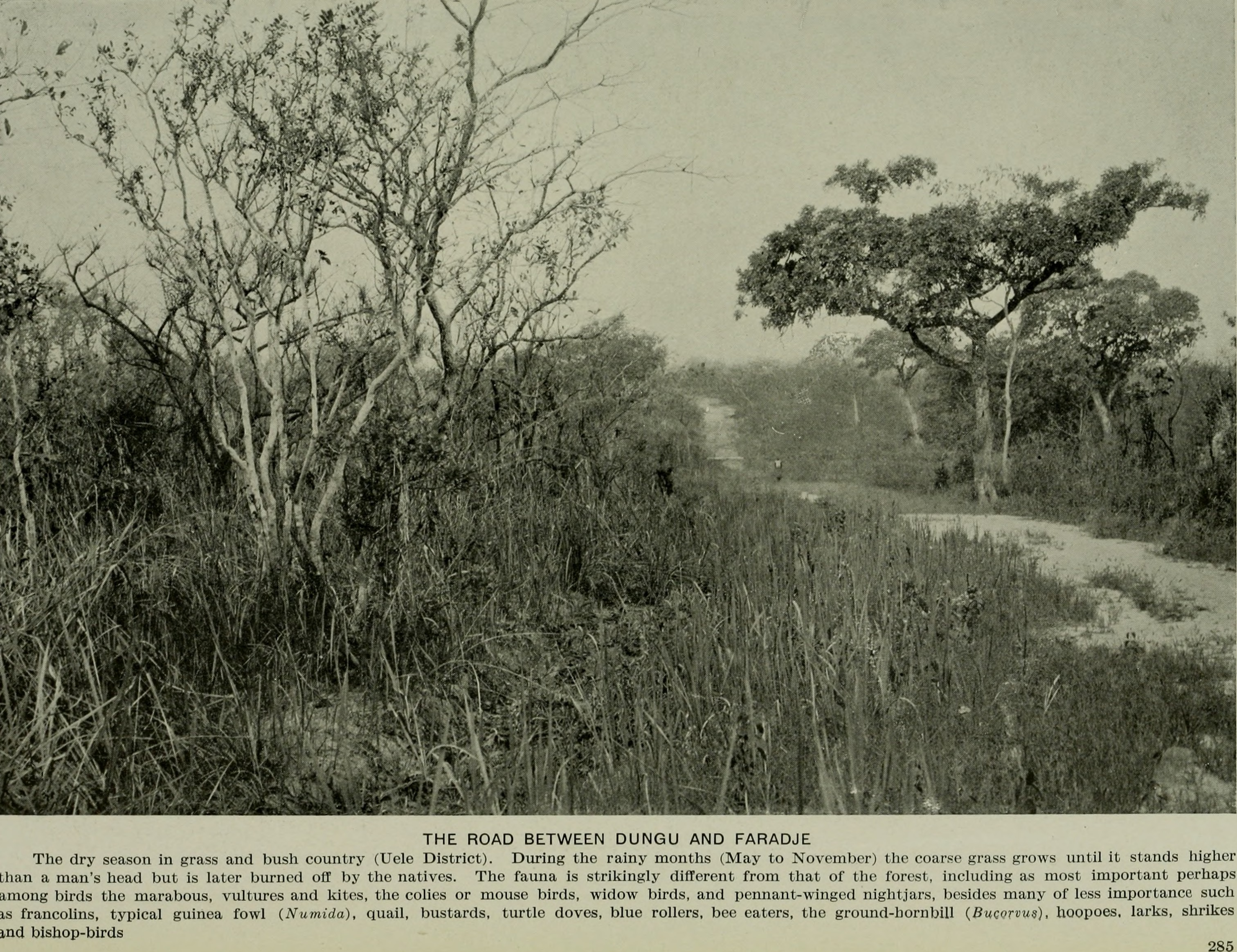 The road between Dungu and Faradje. Title: The American Museum journal Year: c1900-(1918) (c190s) Authors: American Museum of Natural History Subjects: Natural history Publisher: New York : American Museum of Natural History Text Appearing Before Image: ' Text Appearing After Image: -H M )^ ra cd cd